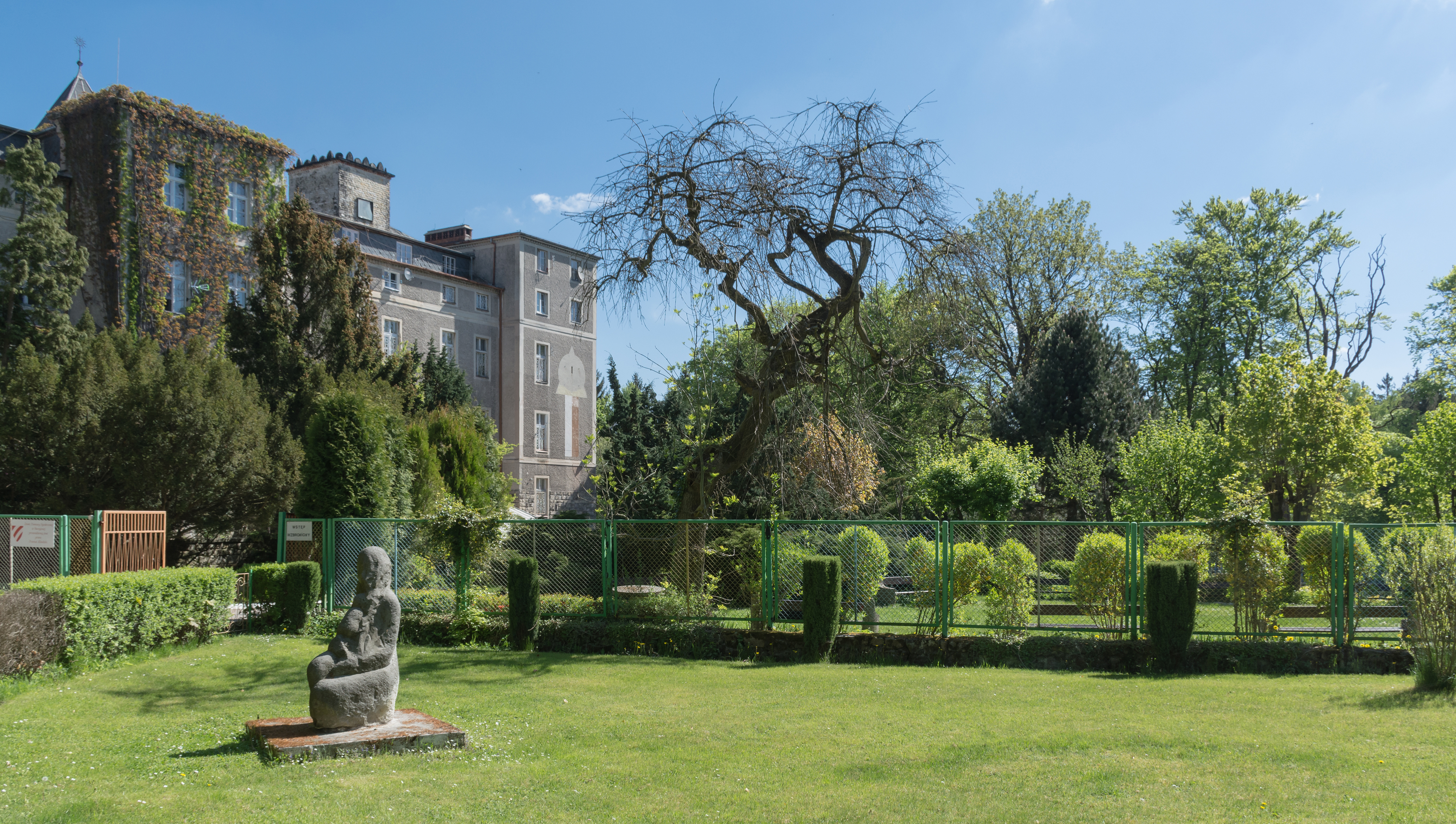 Park at the Leśna castle in Szczytna